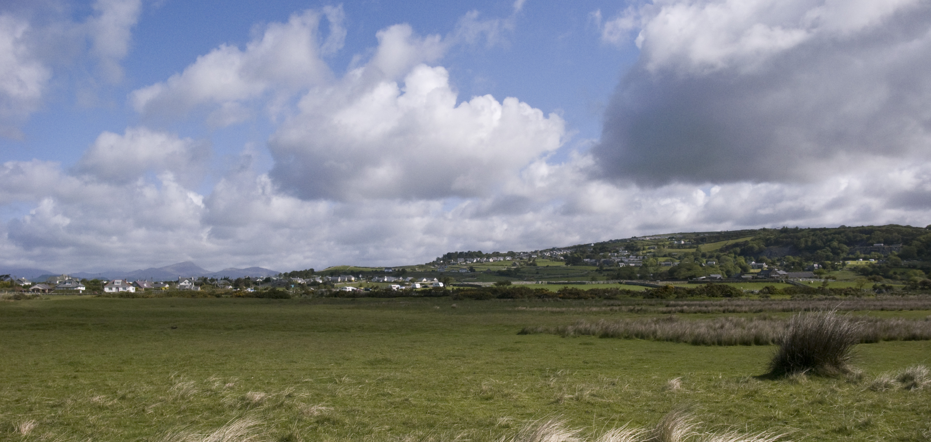 The villages of Llandanwg (left) and LLanfair (right, up the hill), Gwynedd, North Wales. Viewed from across the National Trust field: Y Maes.